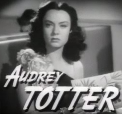 Cropped screenshot of Audrey Totter from the trailer for the film The Postman Always Rings Twice.